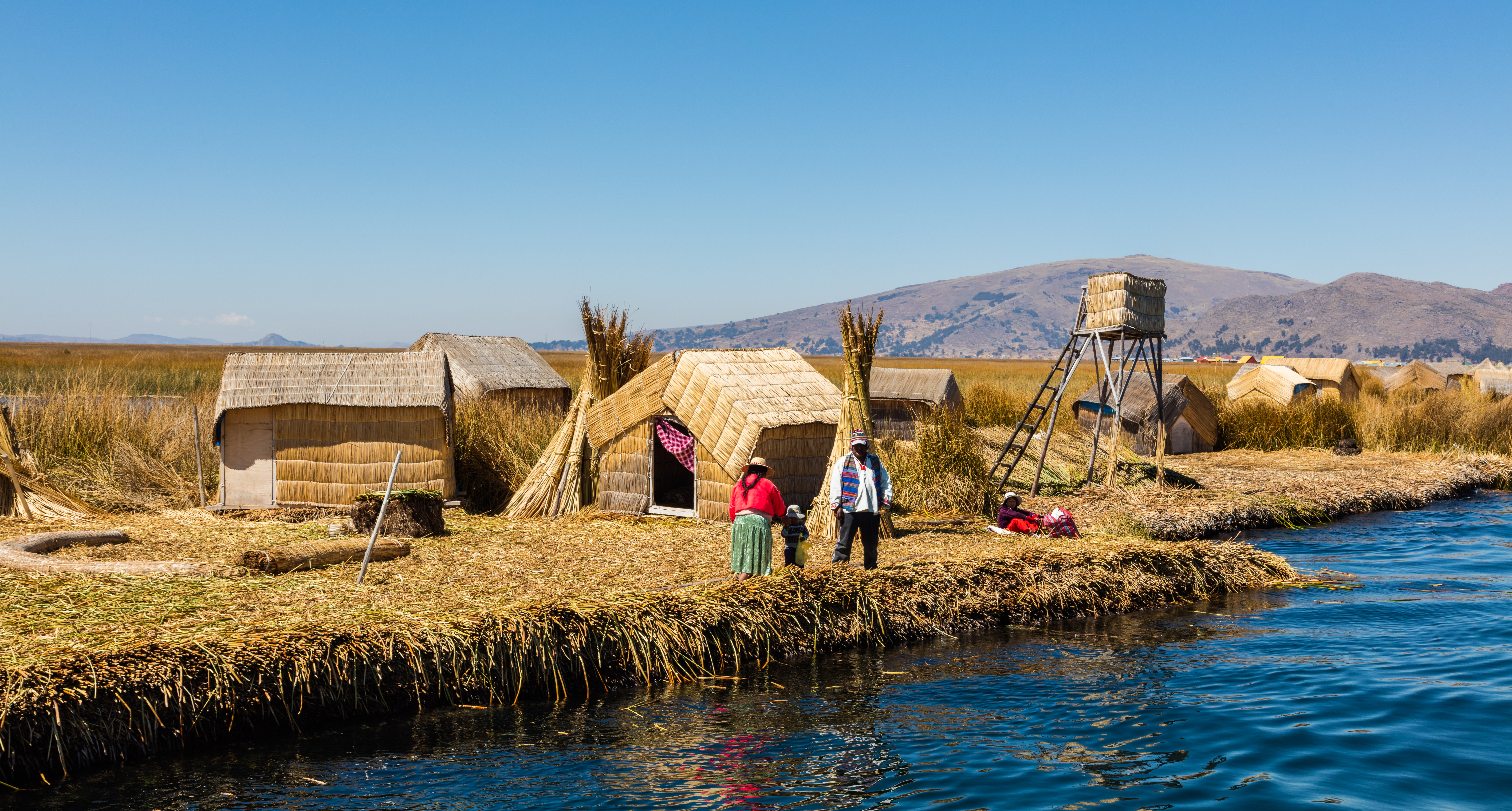 Uros floating islands, Titicaca Lake, Peru